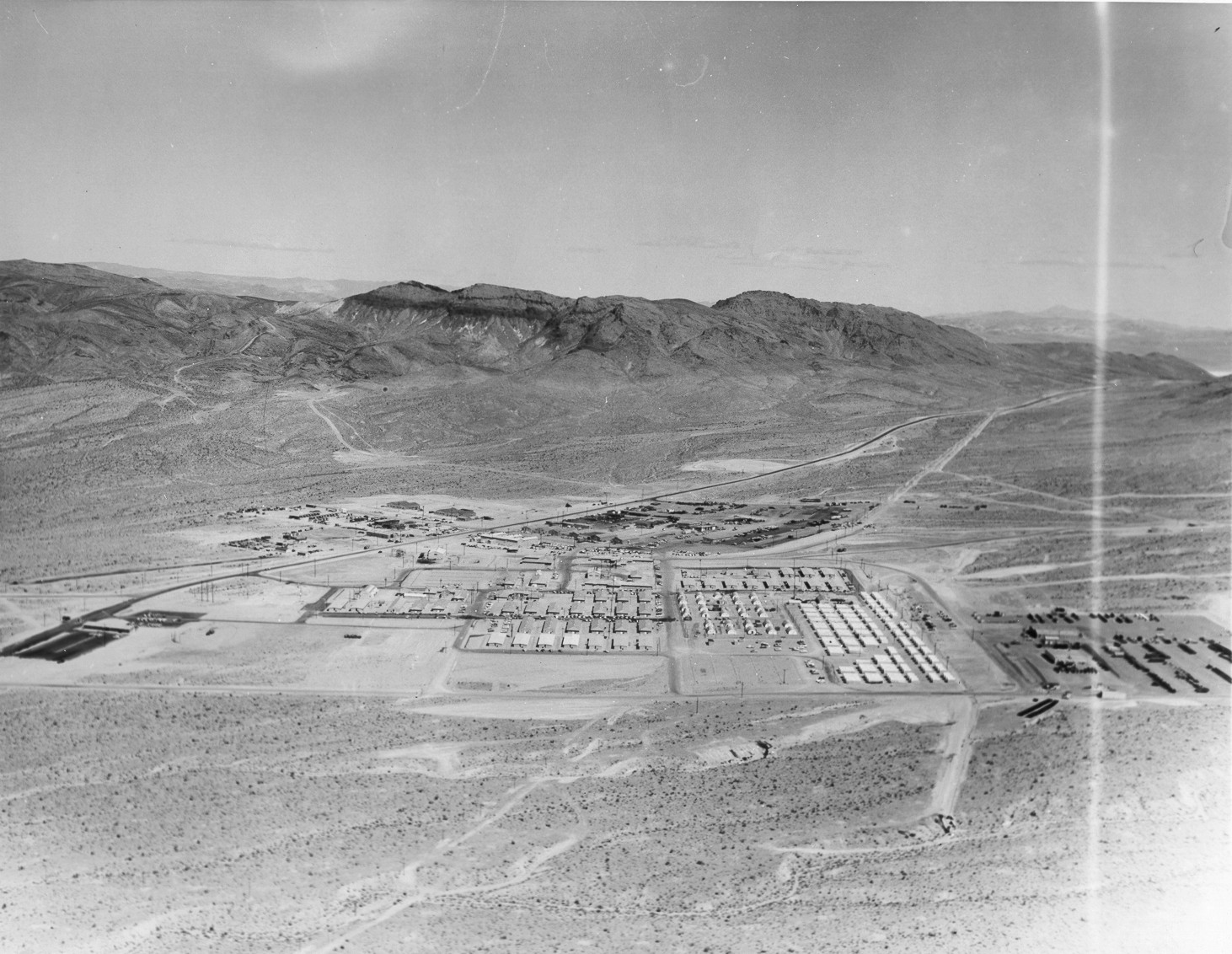 PLUMBBOB/CAMP MERCURY - March 30, 1957 - NEVADA TEST SITE -- Aerial view of Camp Mercury and Desert Rock taken on 3/30/57.